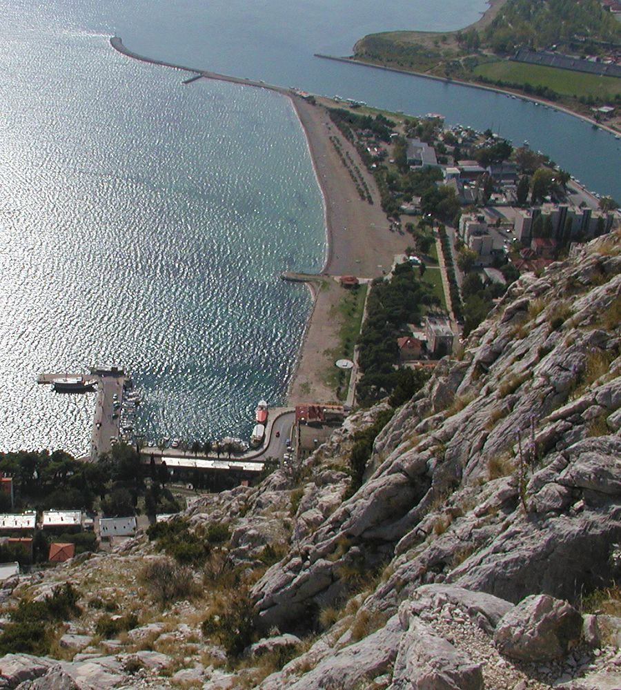 Cetina river mouth, at the City of Omiš. Authors: Zoran Knez & Dražen Radujkov